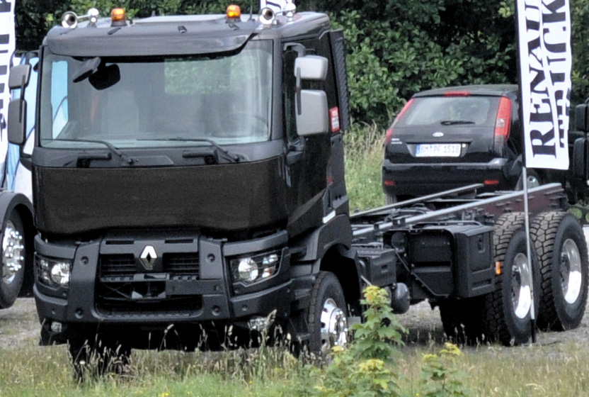 Renault Trucks K, a model of the French truckmacker Renault Trucks.